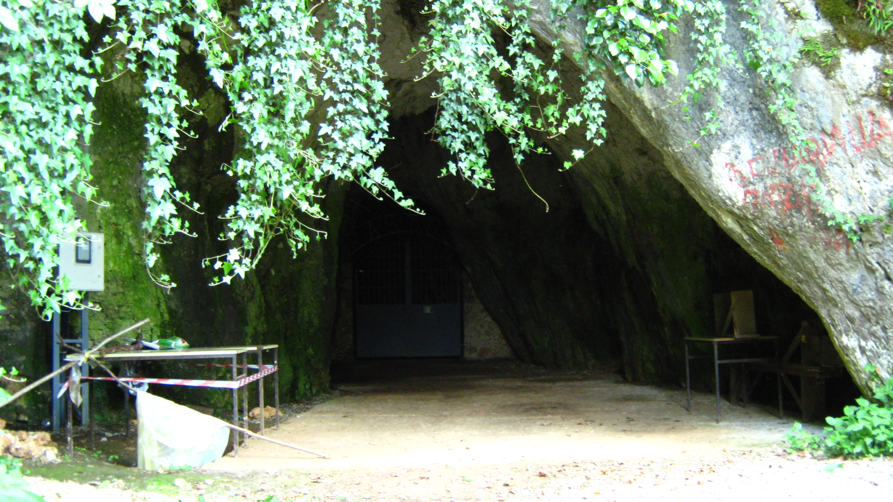 Rastuska pecina 5